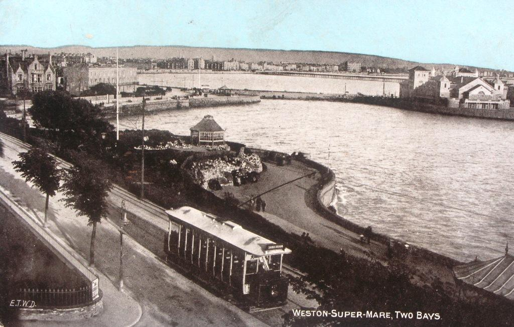 A 'toast rack' tramcar passes the Madeira Cove, Weston-super-Mare, Somerset, England. The theatre on Knightstone Island is in the middle distance, with the recently opened Grand Pier behind. The postcard was used in 1907 but the picture may have been taken any time from 1903.